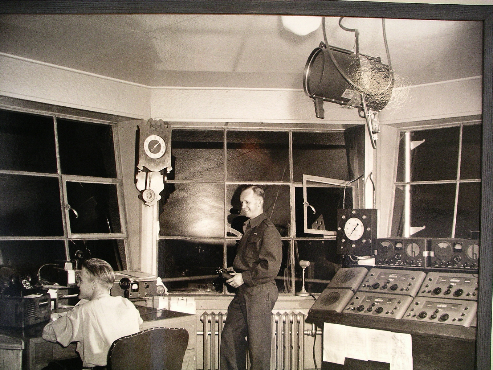 WWII Controllers